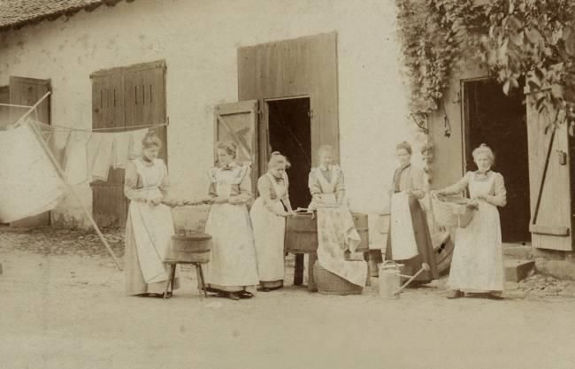 Reifensteiner Schule Ofleiden 1898 Wäschepflege